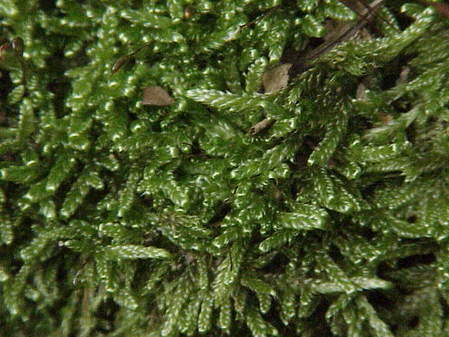 Species: Hypnum cupressiforme Family: ' Image No. 1